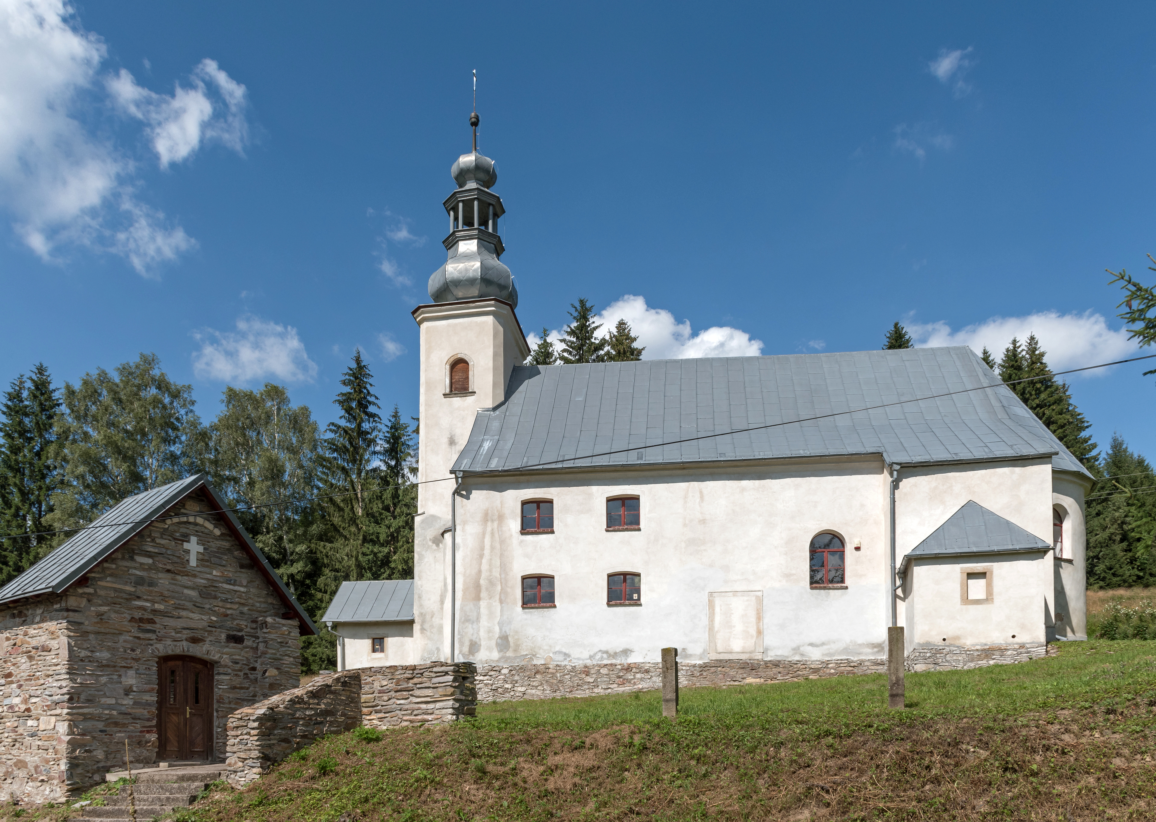 Exaltation of the Holy Cross church in Rudawa Wikidata has entry Q30046645 with data related to this item.